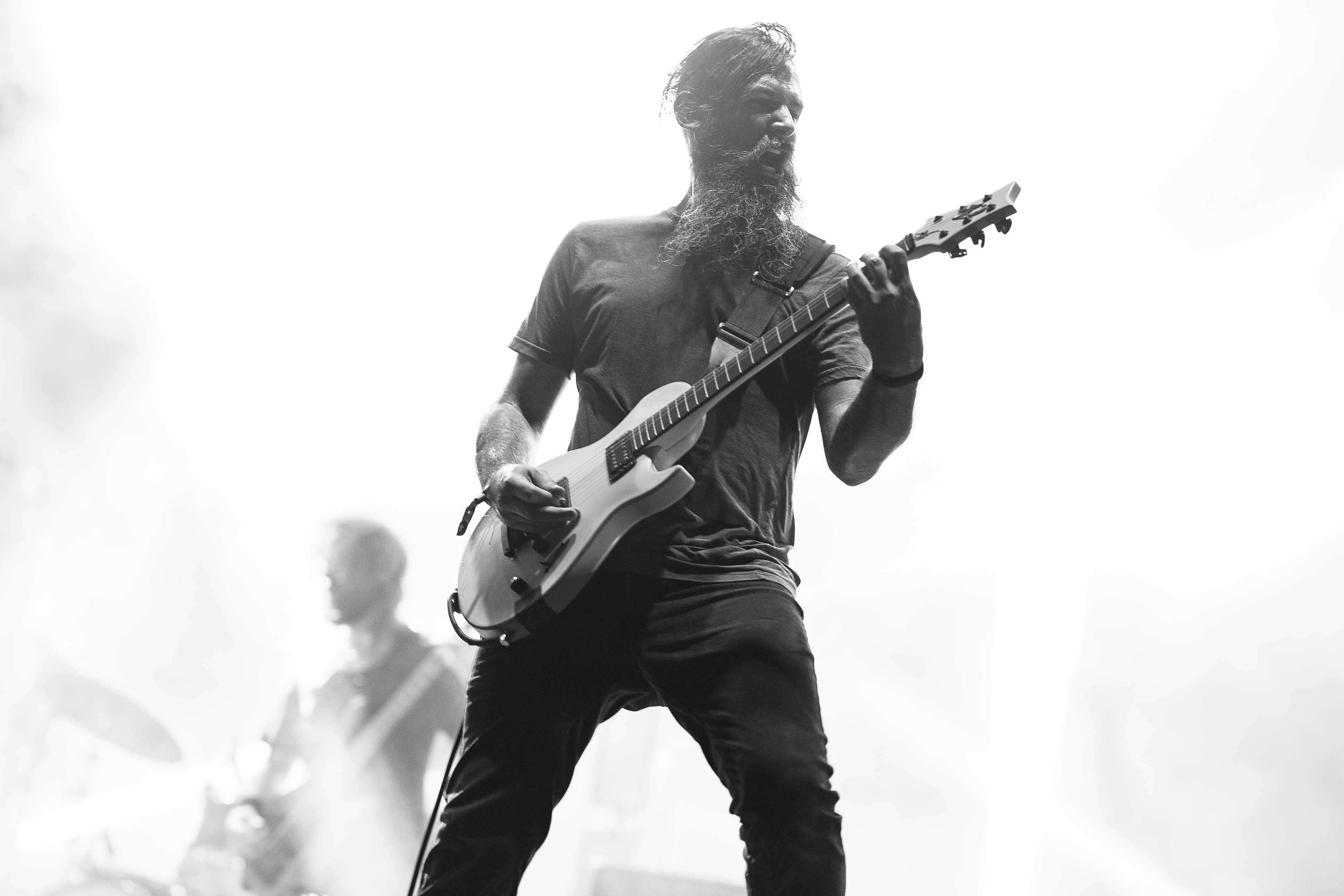 The Dillinger Escape Plan during their final tour in Europe. Brutal Assault Festival, Jaroměř 2017.